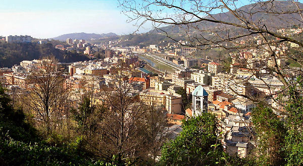 My photoView of Bolzaneto (Genova-Italy)